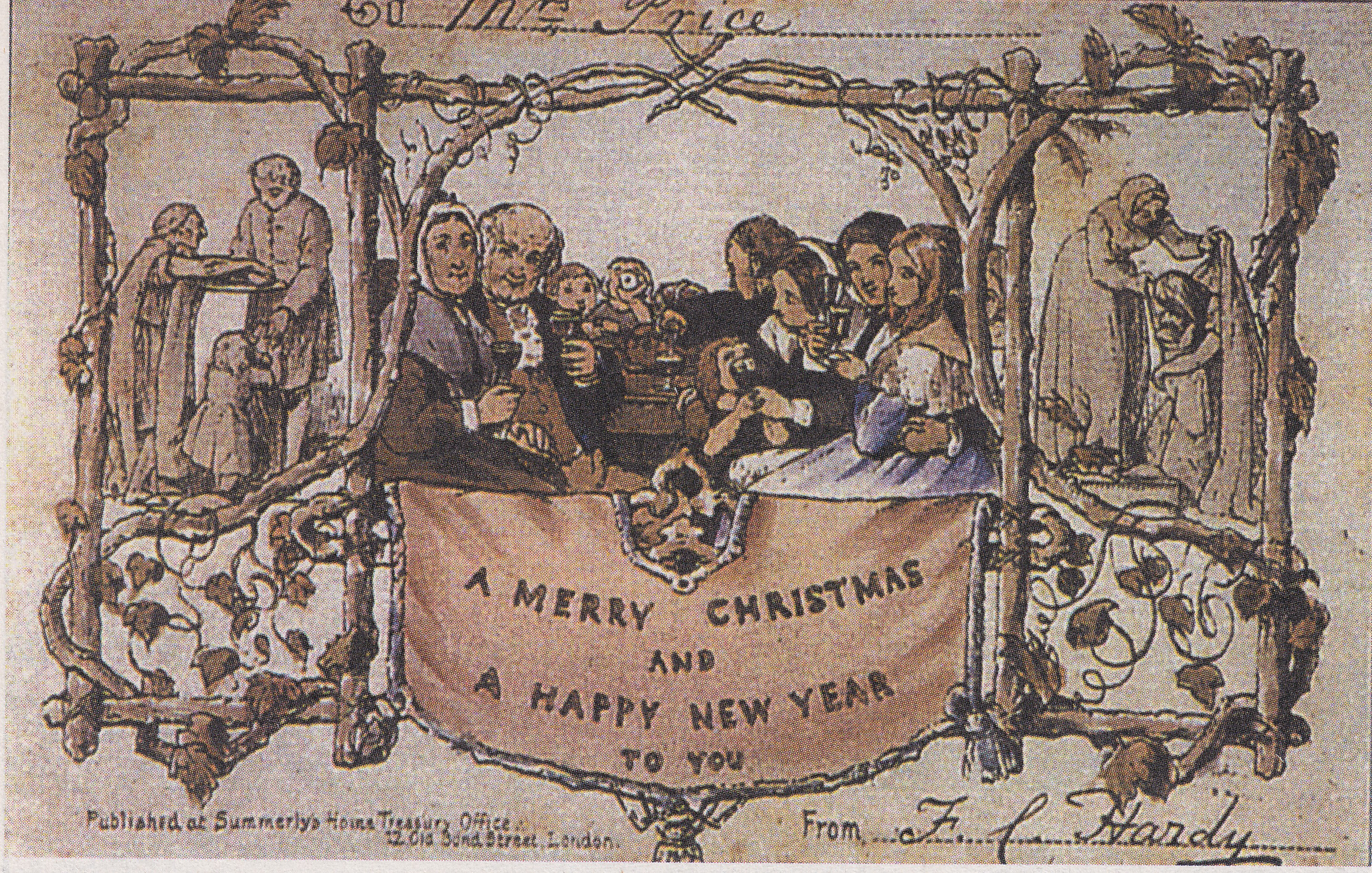 The first Christmas card, commissioned by Henry Cole (collection Dr. Alan Huggins)